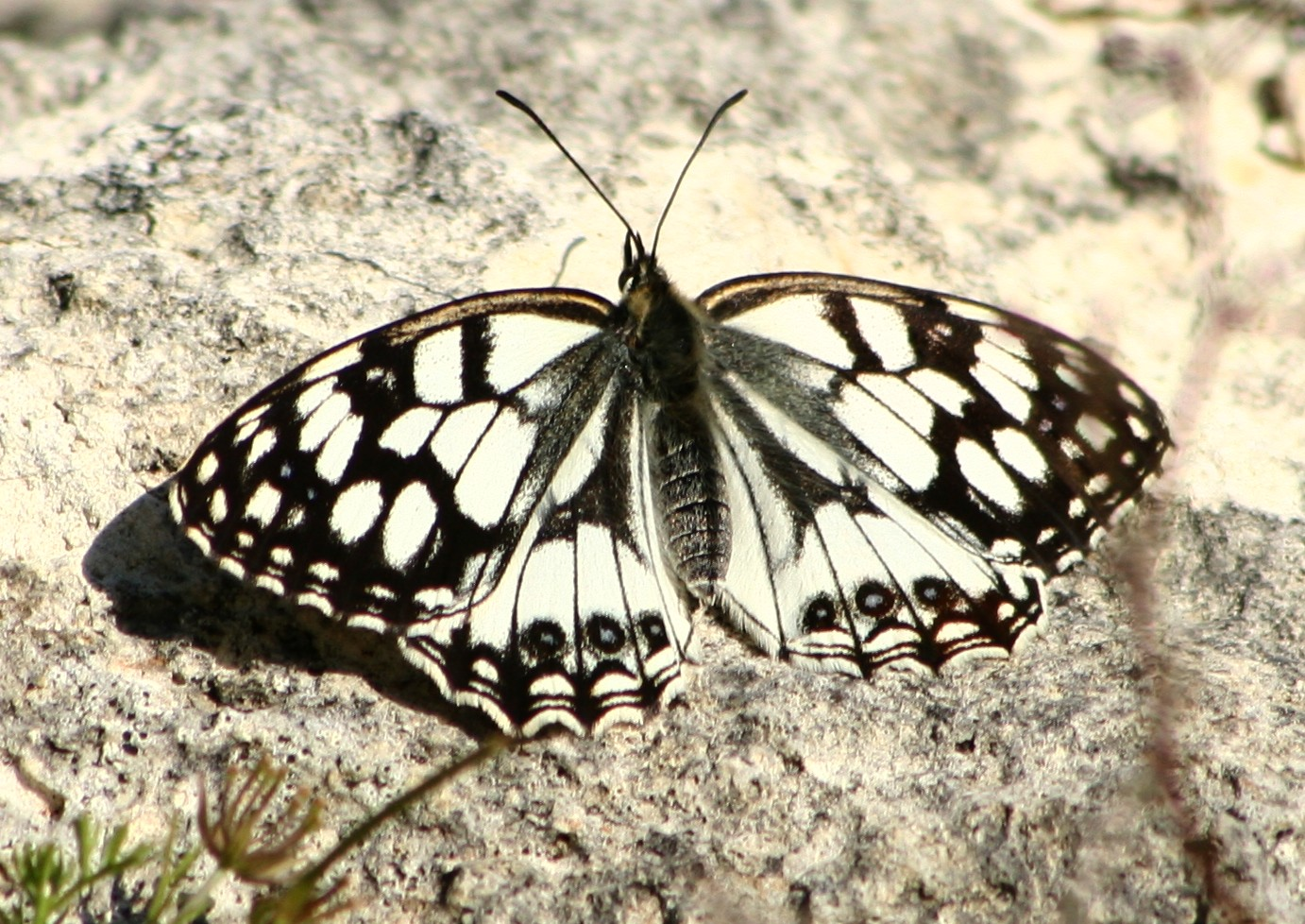 Western Marbled White